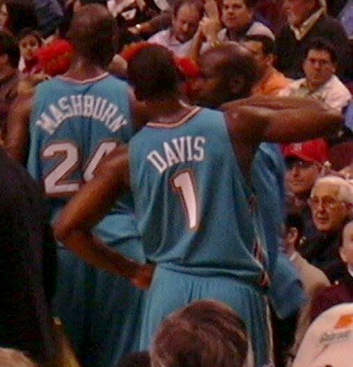 New Orleans Hornets Jamal Mashburn and Baron Davis at the First Union Center in Philadelphia